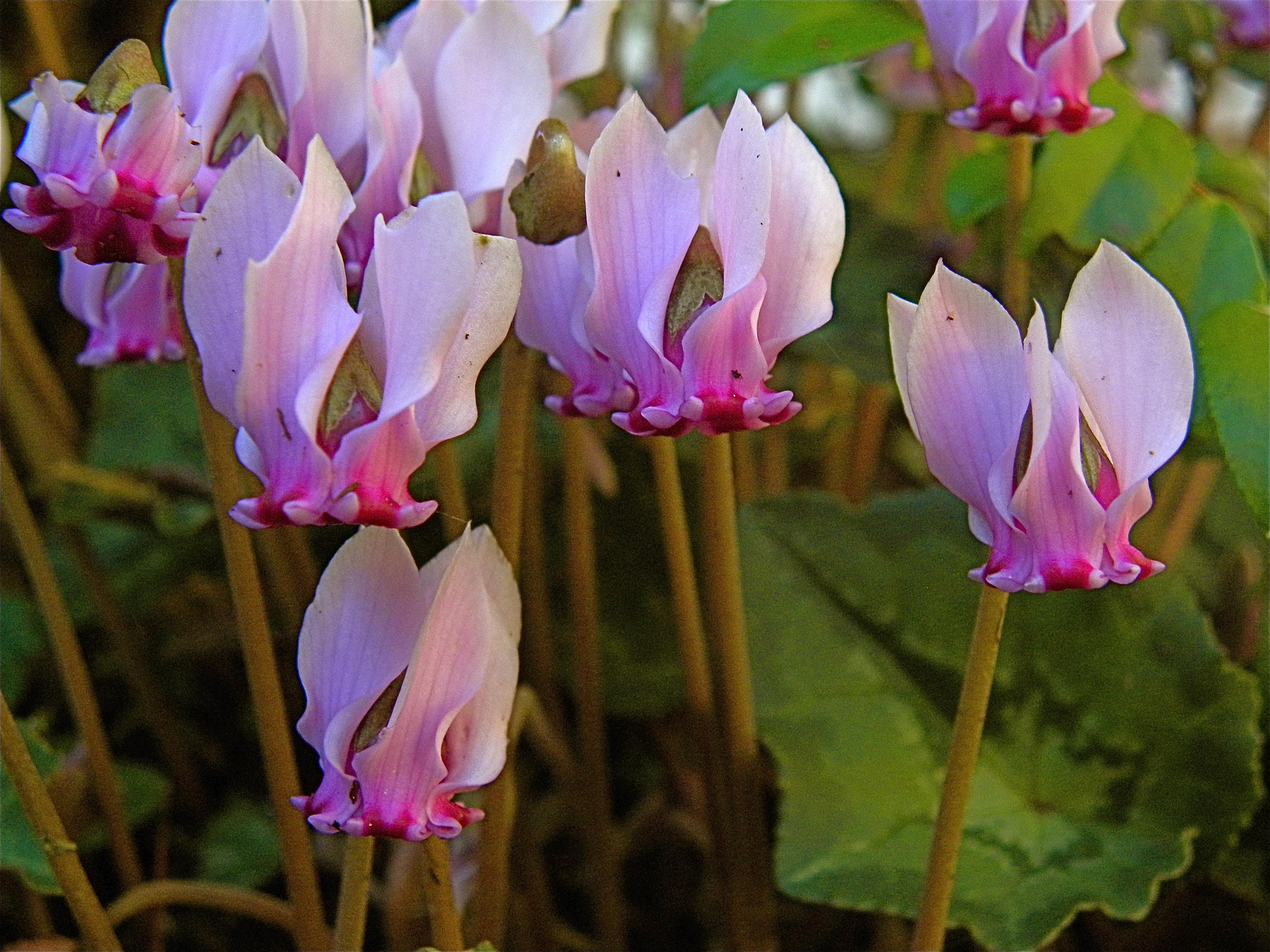 Cyclamen hederifolium flowers with unusually prominent auricles.